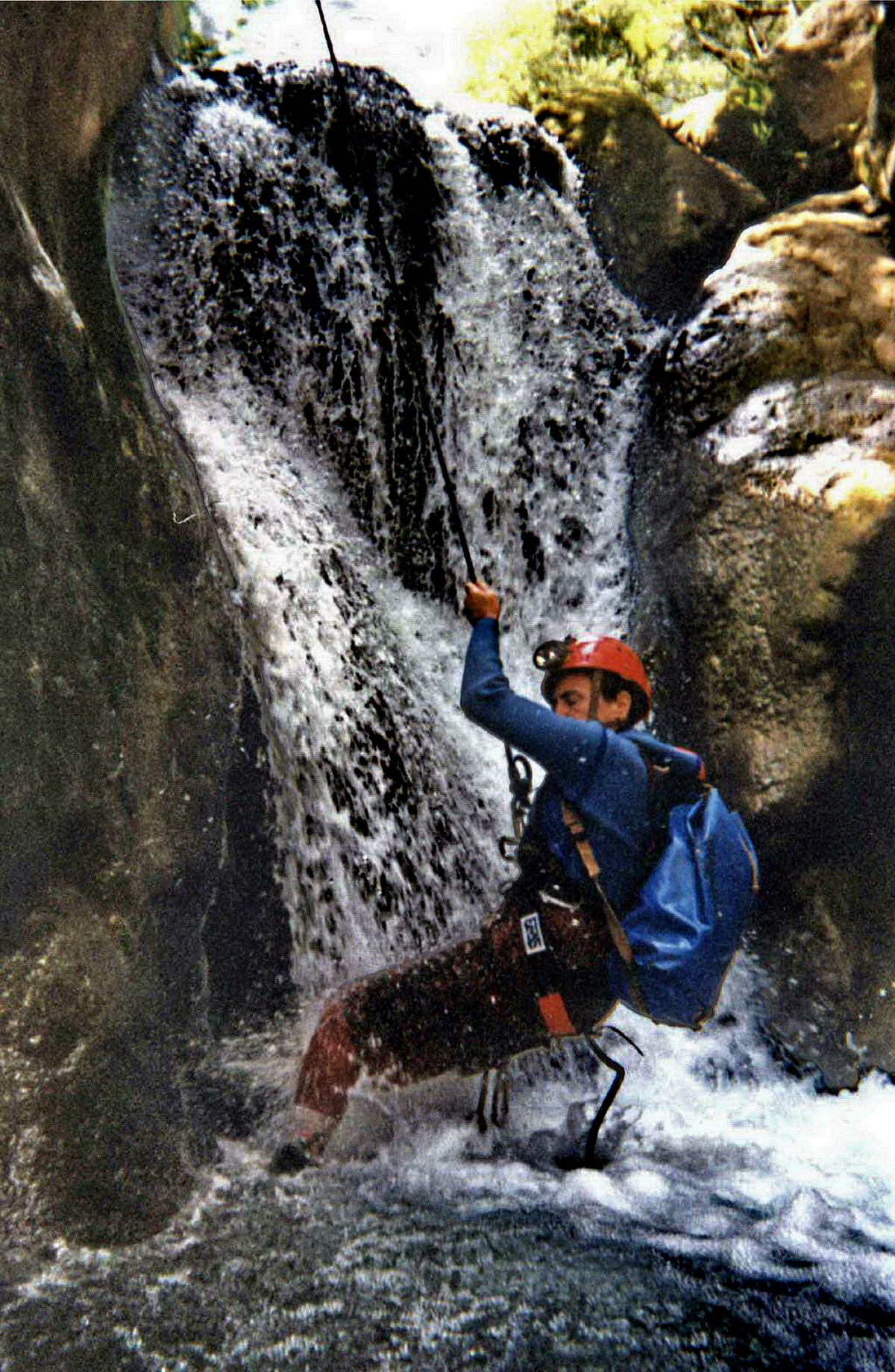 Siagne de la Pare river, canyoning